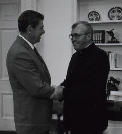 Ronald Reagan in Oval Office in 1982 with John Roach